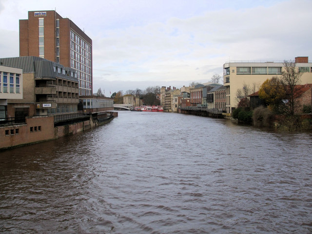 High Water York Taken from Ouse Bridge facing north